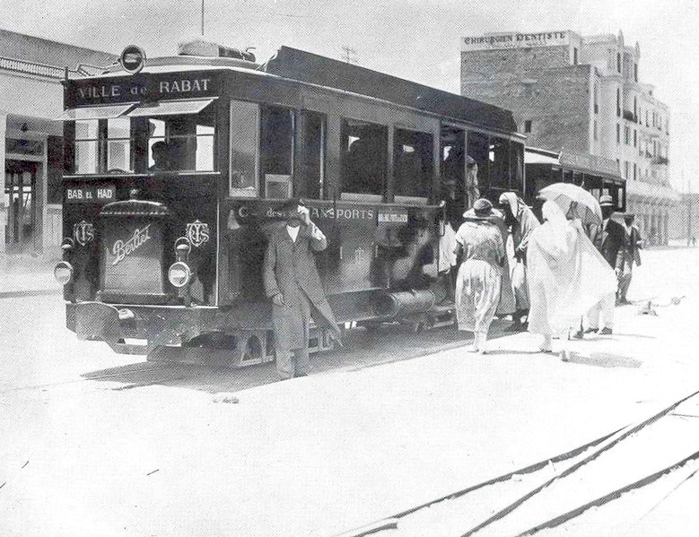 Berliet tramway in Rabat, Morocco. 1920s